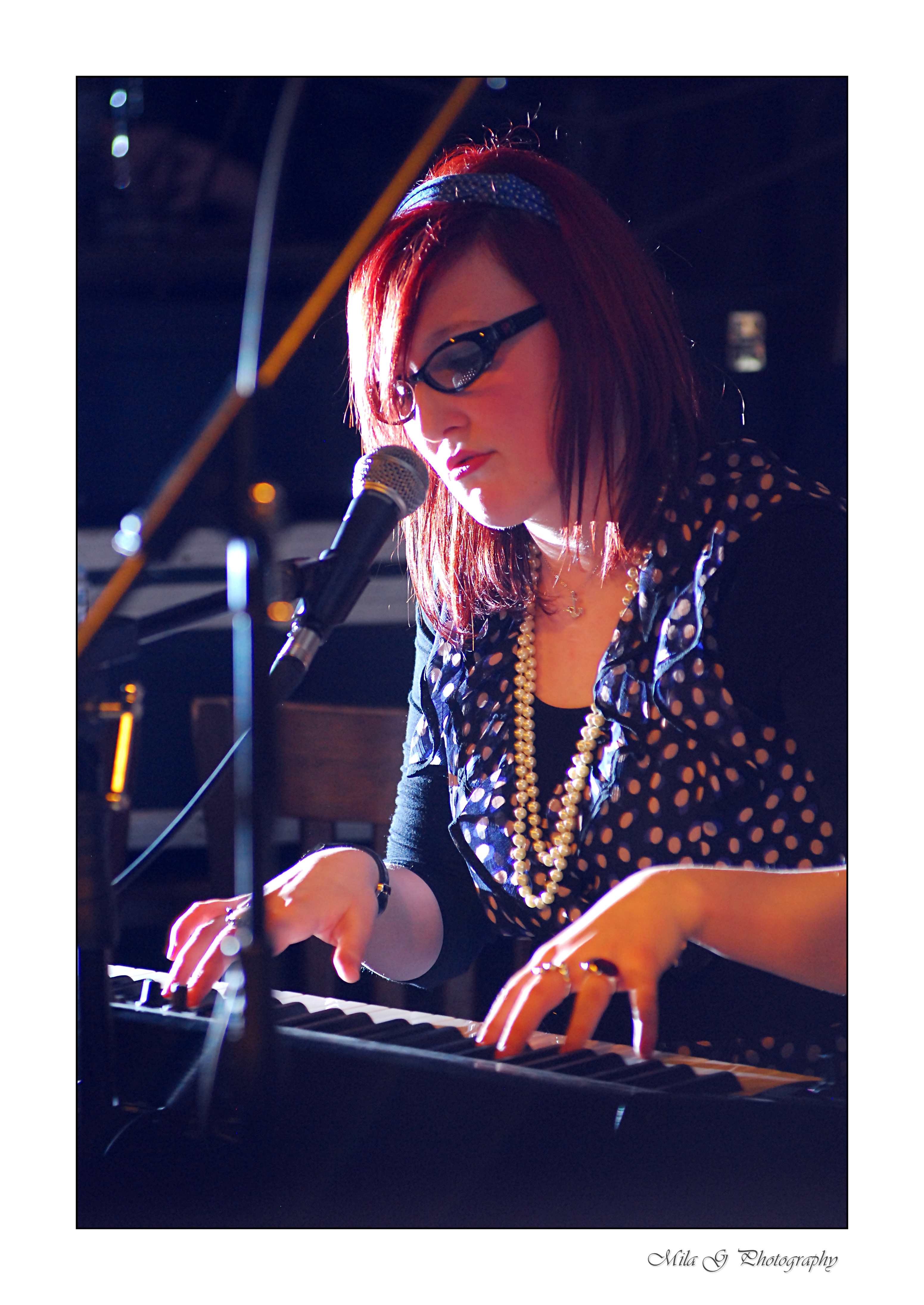 Lou Hickey